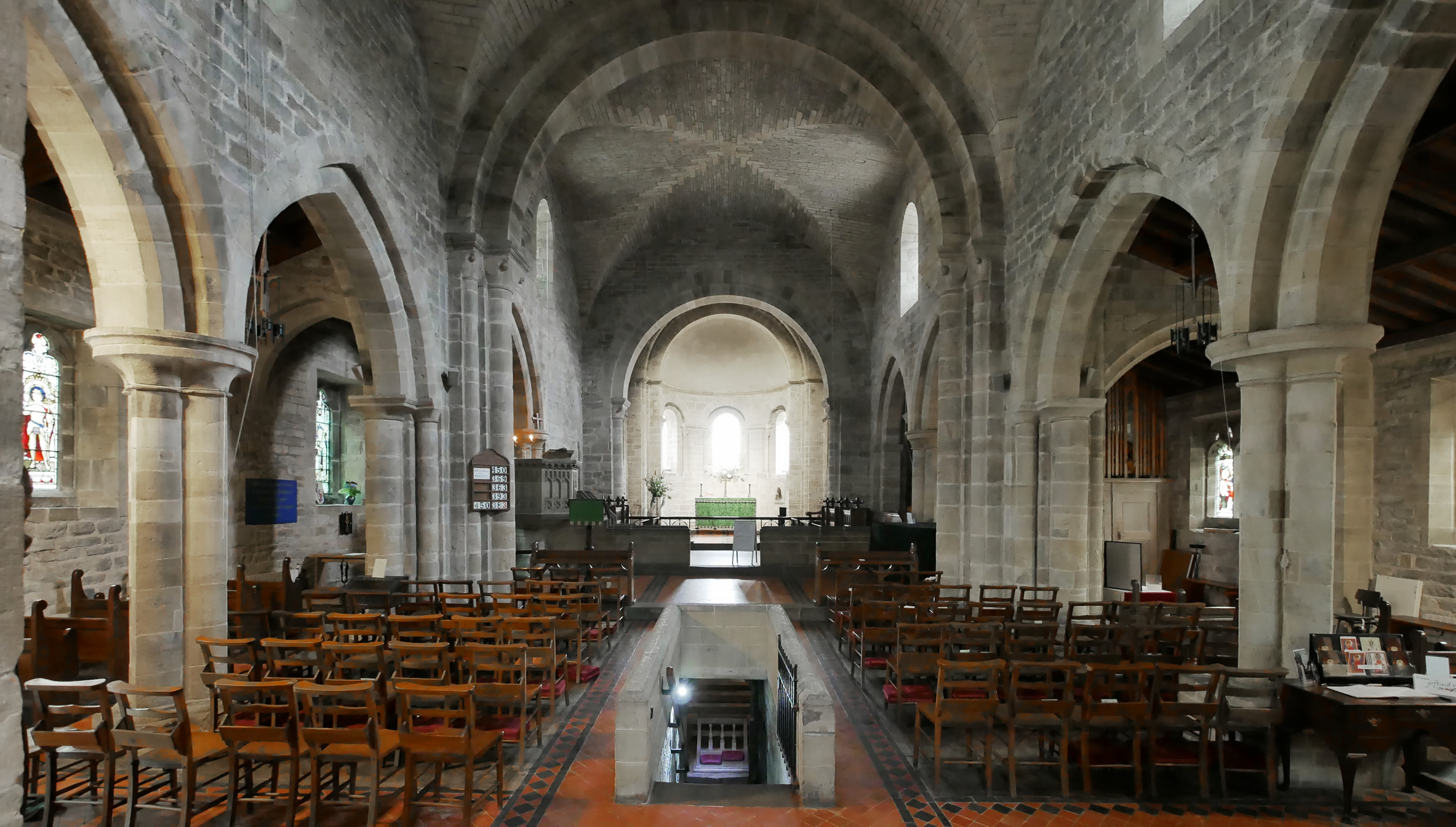 Inside St Mary's parish church, Lastingham, North Yorkshire, looking east to the apsidal chancel